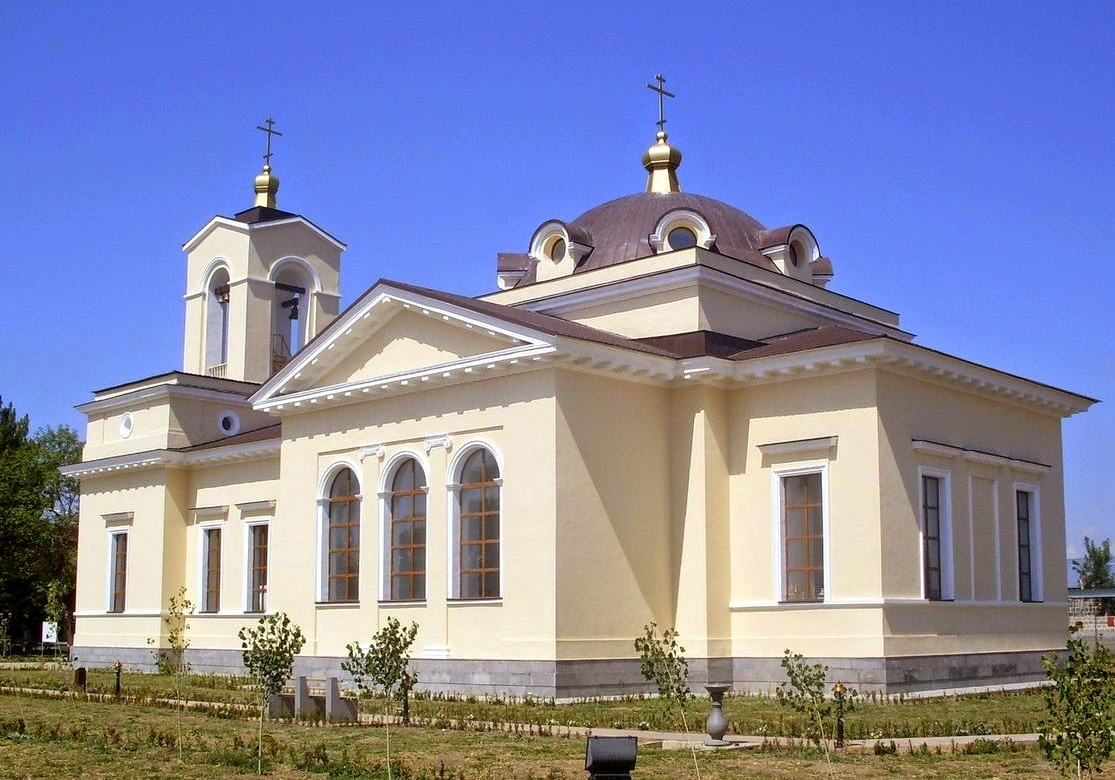 Saint Alexandra Russian Church, Gyumri, Armenia